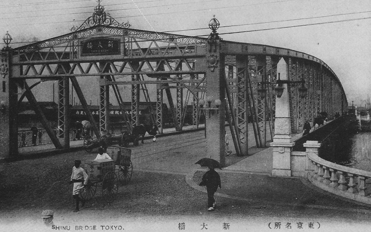 Shin Ohashi Bridge over the Sumida River in Tokyo, built in 1912.